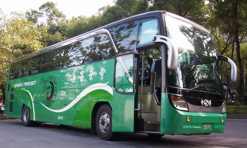 Green Transit Intercity Bus 252-FC